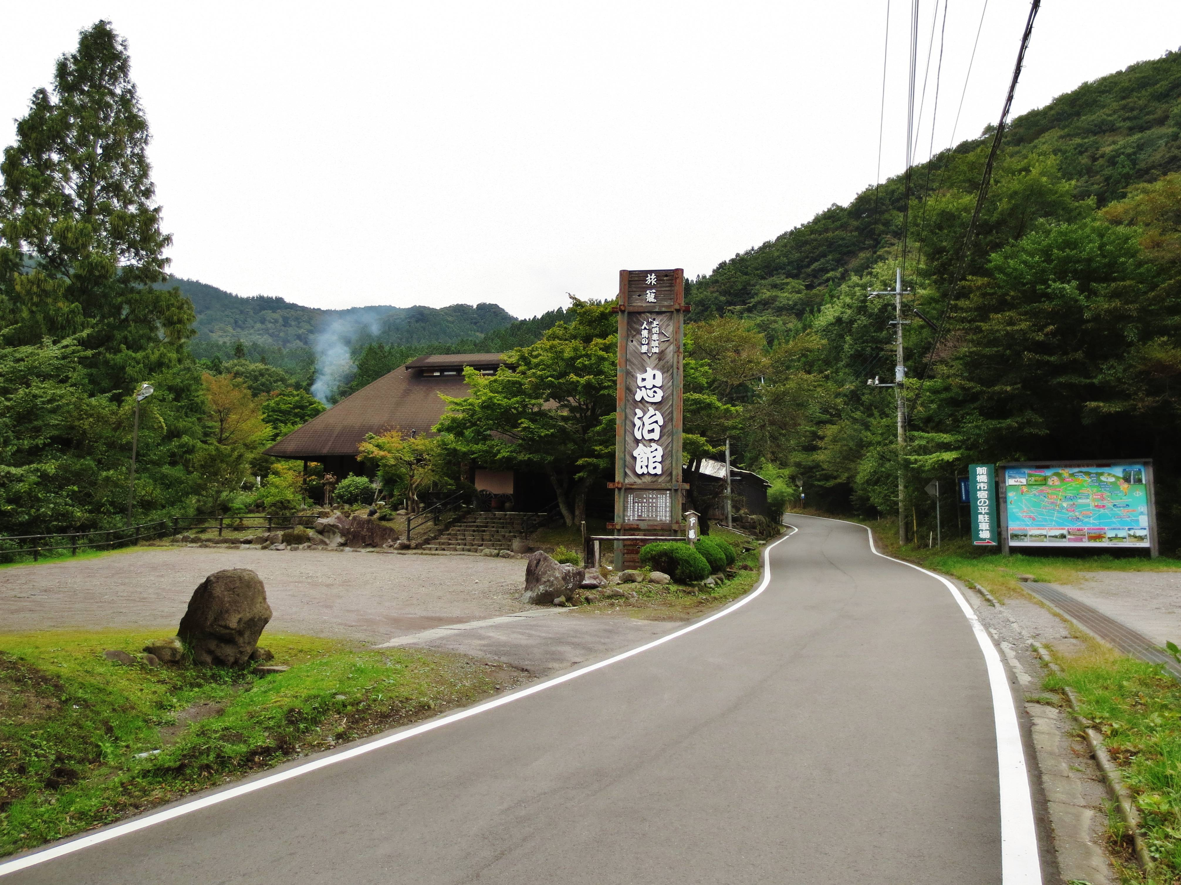 Akagi Onsenkyō Chūji Onsen.